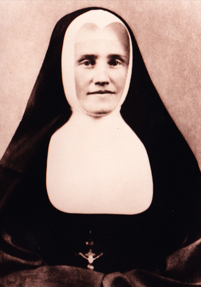 Mother Élisabeth Turgeon (1840–1881), at the Congrégation of the Sisters of the Petites écoles. Blessed Marie-Élisabeth Turgeon RSR, founder of the Sisters of Our Lady of the Holy Rosary, was beatified in Rimouski, on April 26, 2015.